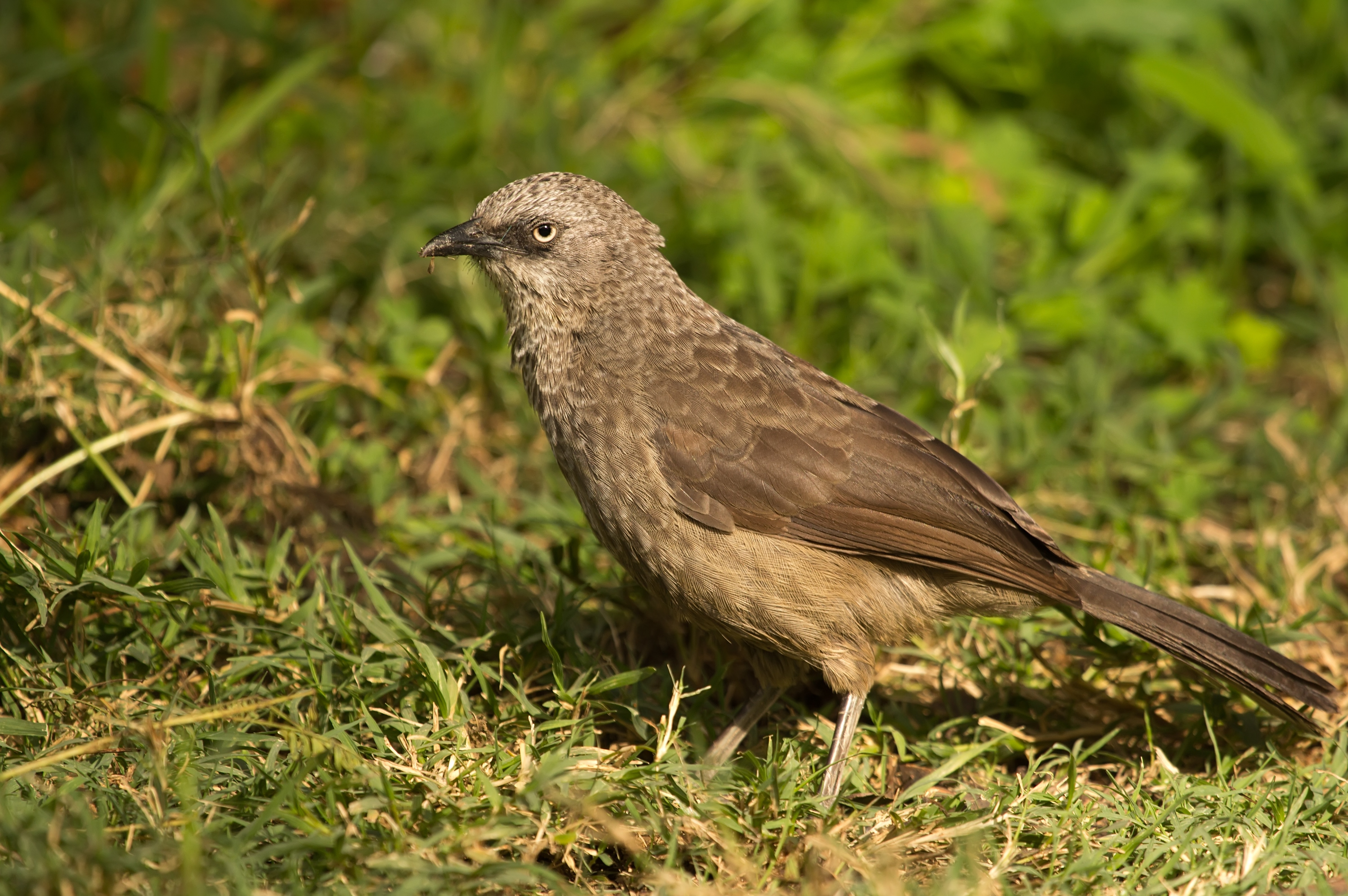 Black-lored babbler at Lake Naivasha, Kenya